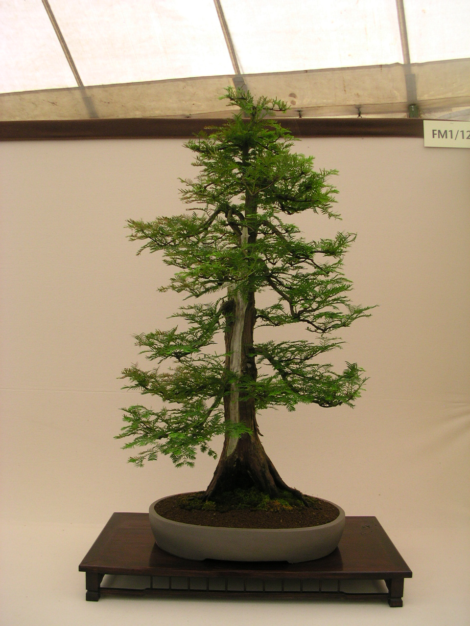 A bonsai specimen of Metasequoia at the Hampton Court Flower Show, London, England.